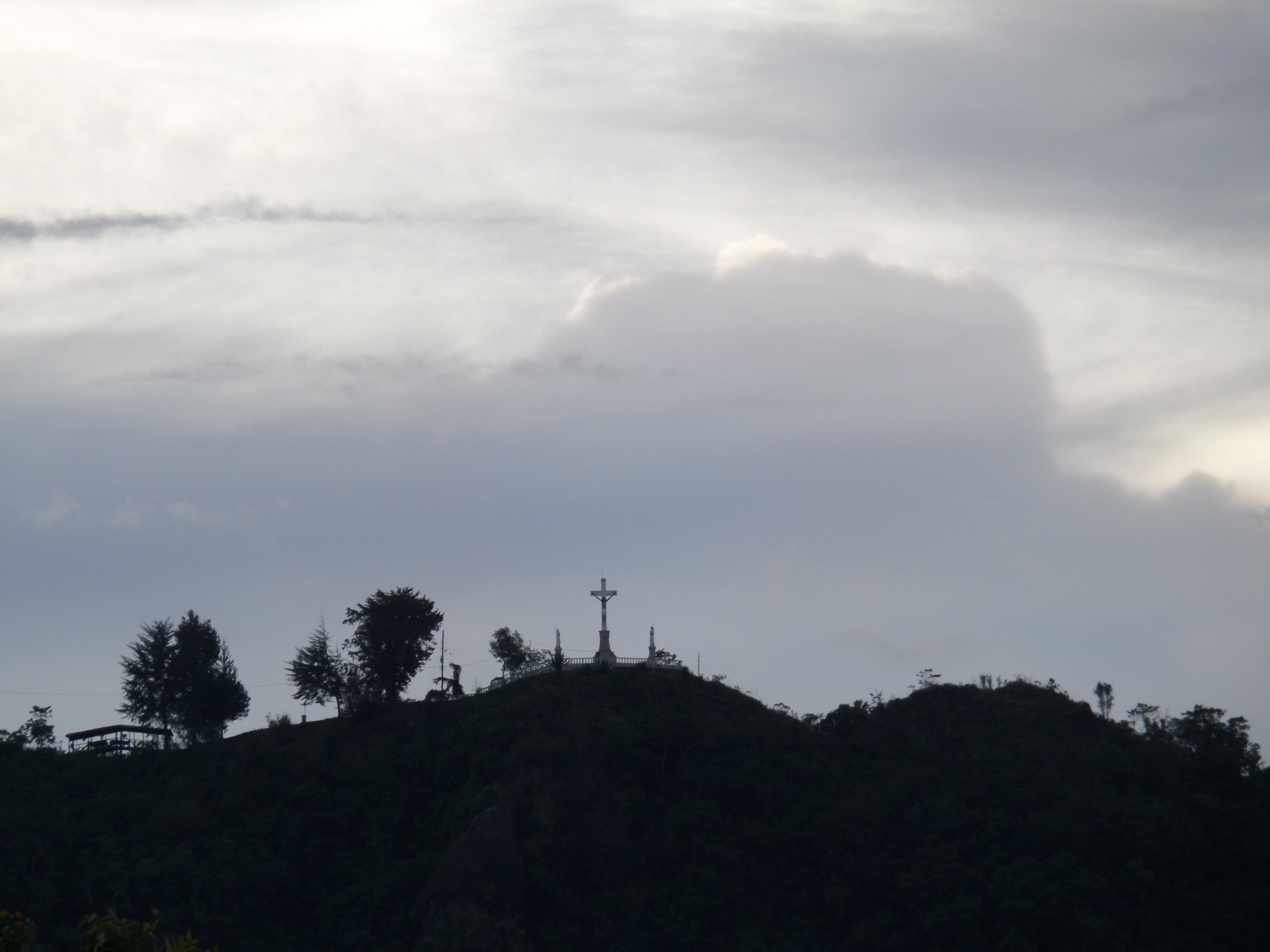 El Gólgota